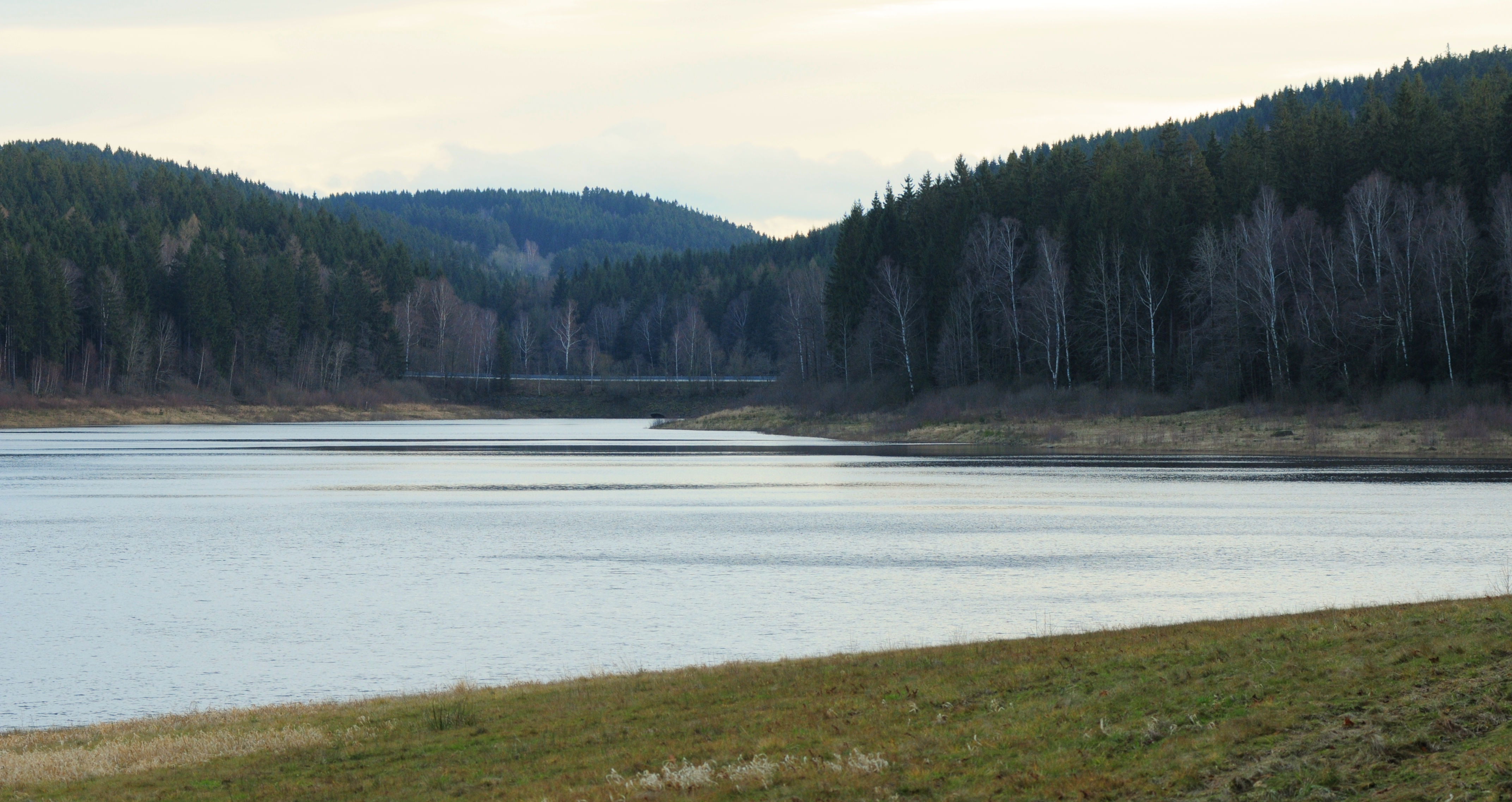 Lehnmühle Dam, view upstream (district Sächsische Schweiz-Osterzgebirge, Free State of Saxony, Germany)